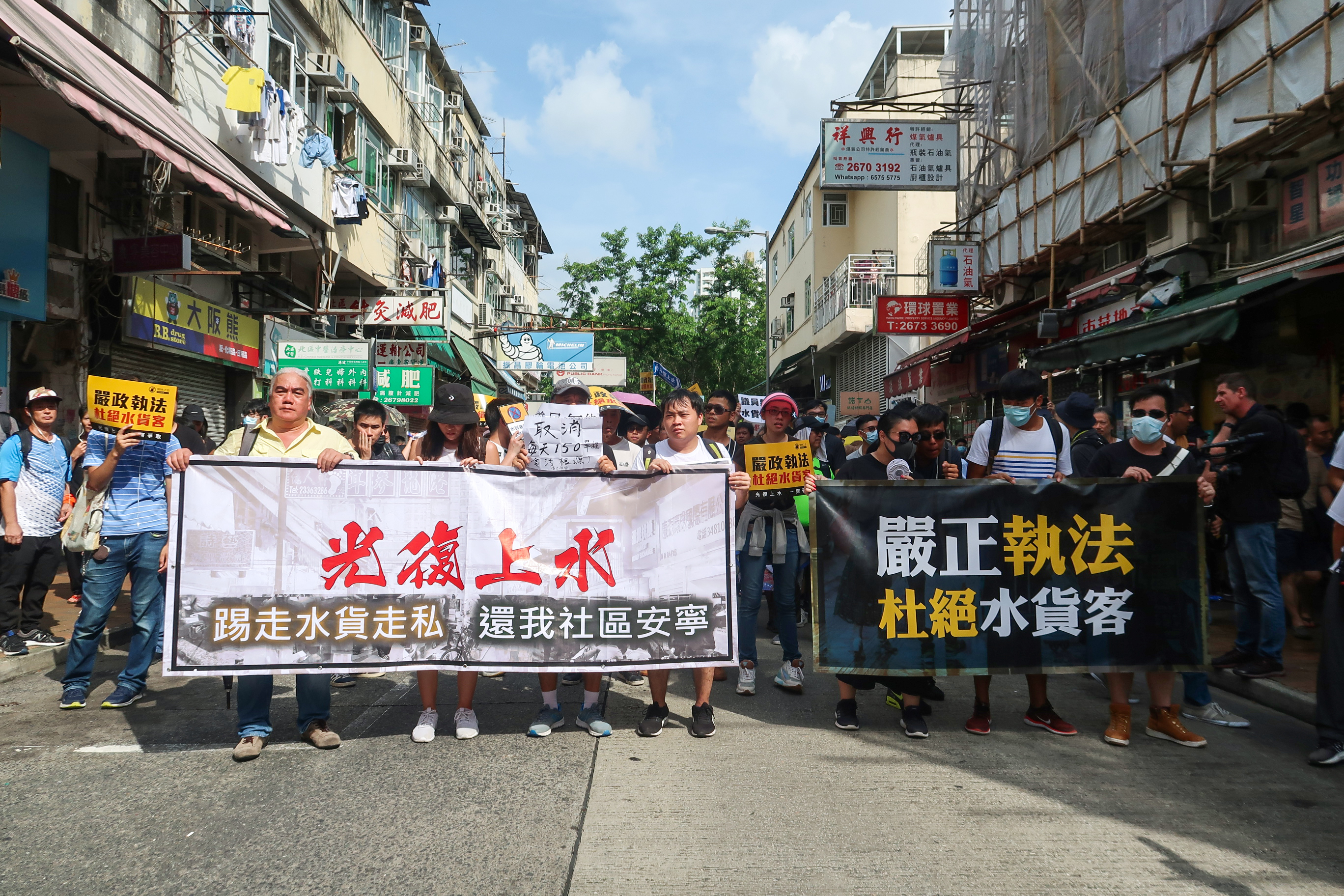 Demonstrate in San Shing Avenue